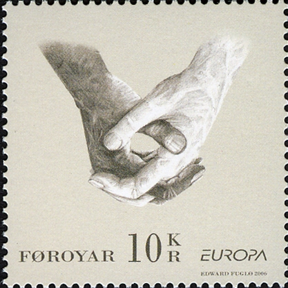 Stamp FO 565 of the Faroe Islands: Integration - Common theme of the Europe CEPT stamps of 2006.